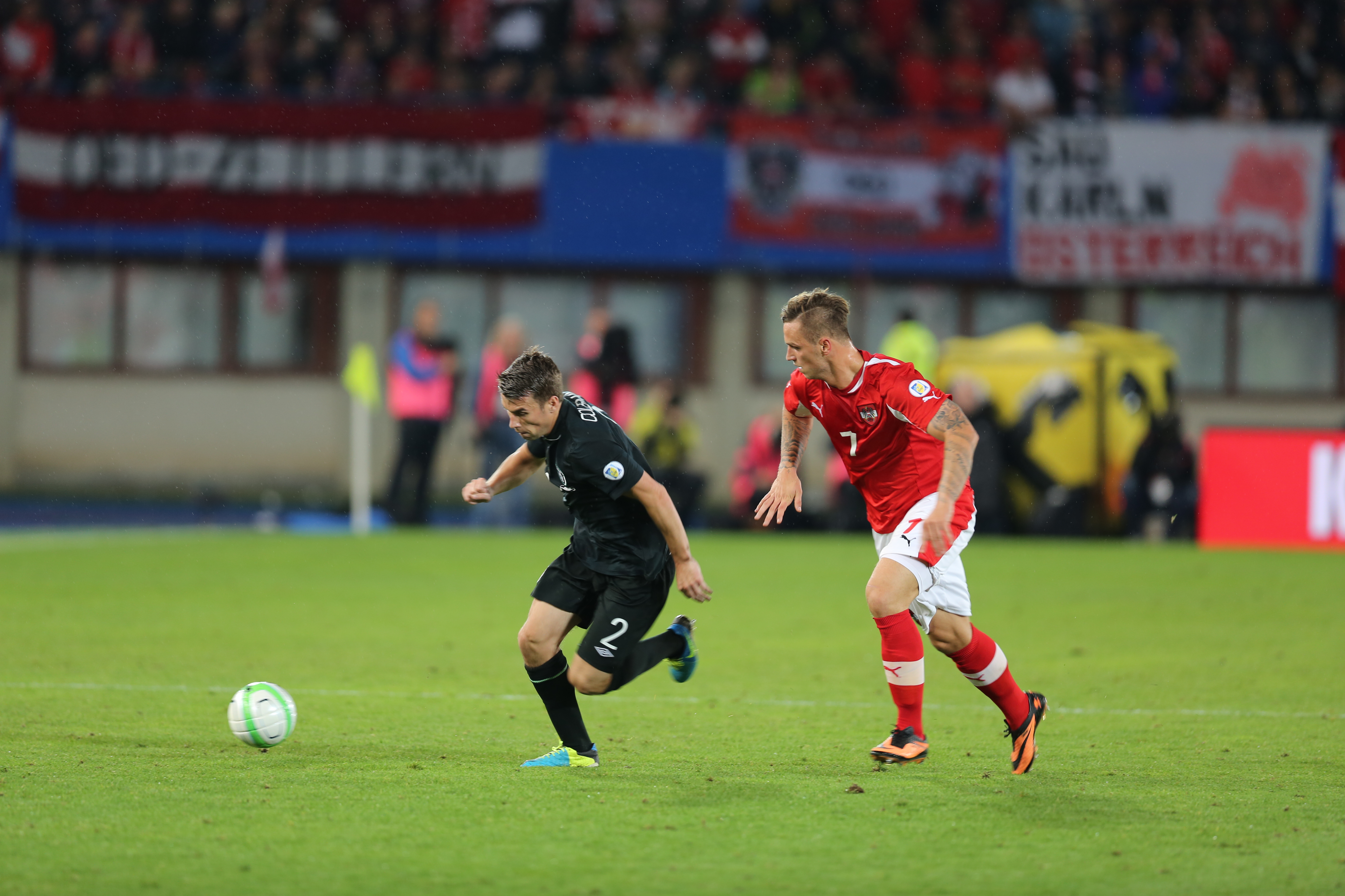 2014 FIFA World Cup qualification (UEFA), Group C: Republic of Ireland national football team at 10. September 2013 before the match against the Austria national football team (0:1) in the Ernst-Happel-Stadion in Vienna. Here: Séamus Coleman, irish defender The making of this work was supported by Wikimedia Austria. For other files made with the support of Wikimedia Austria, please see the category Supported by Wikimedia Österreich.